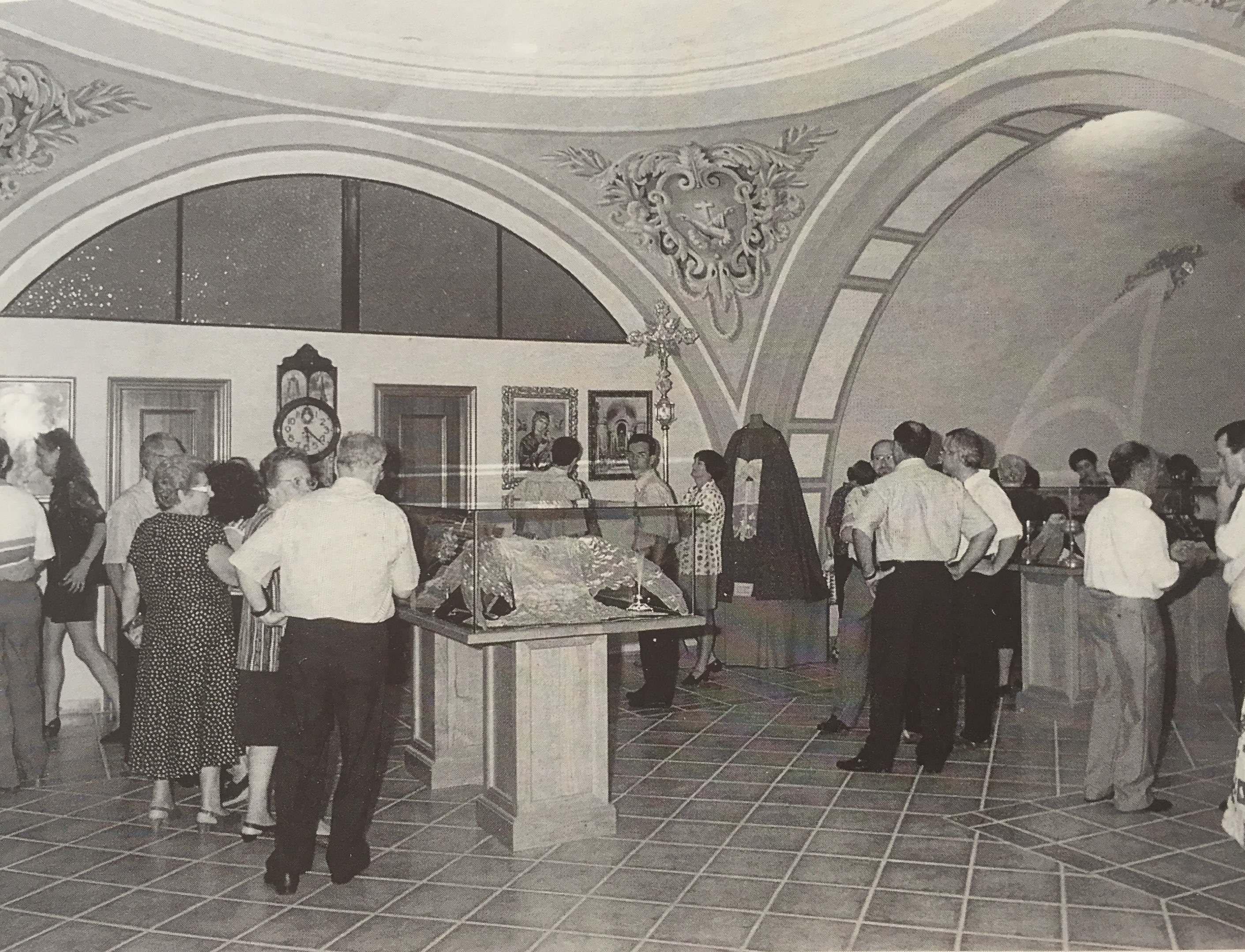 Opening Corte de Maria Museum - Year 1995